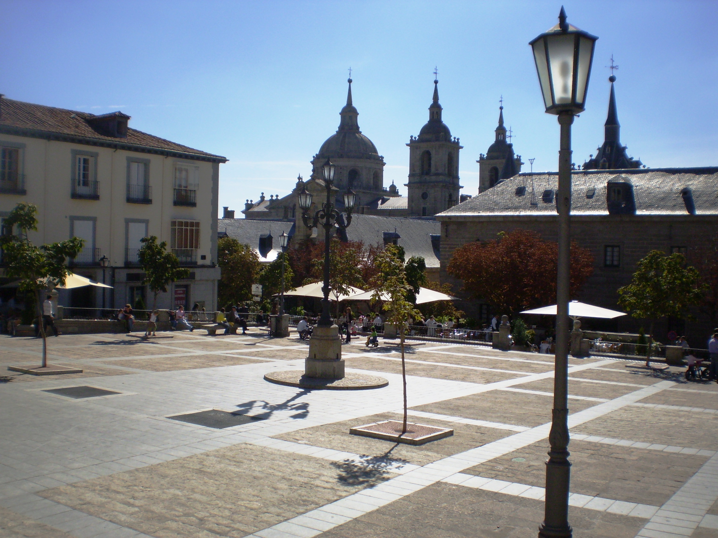 Square in San Lorenzo de El Escorial, Community of Madrid, Spain